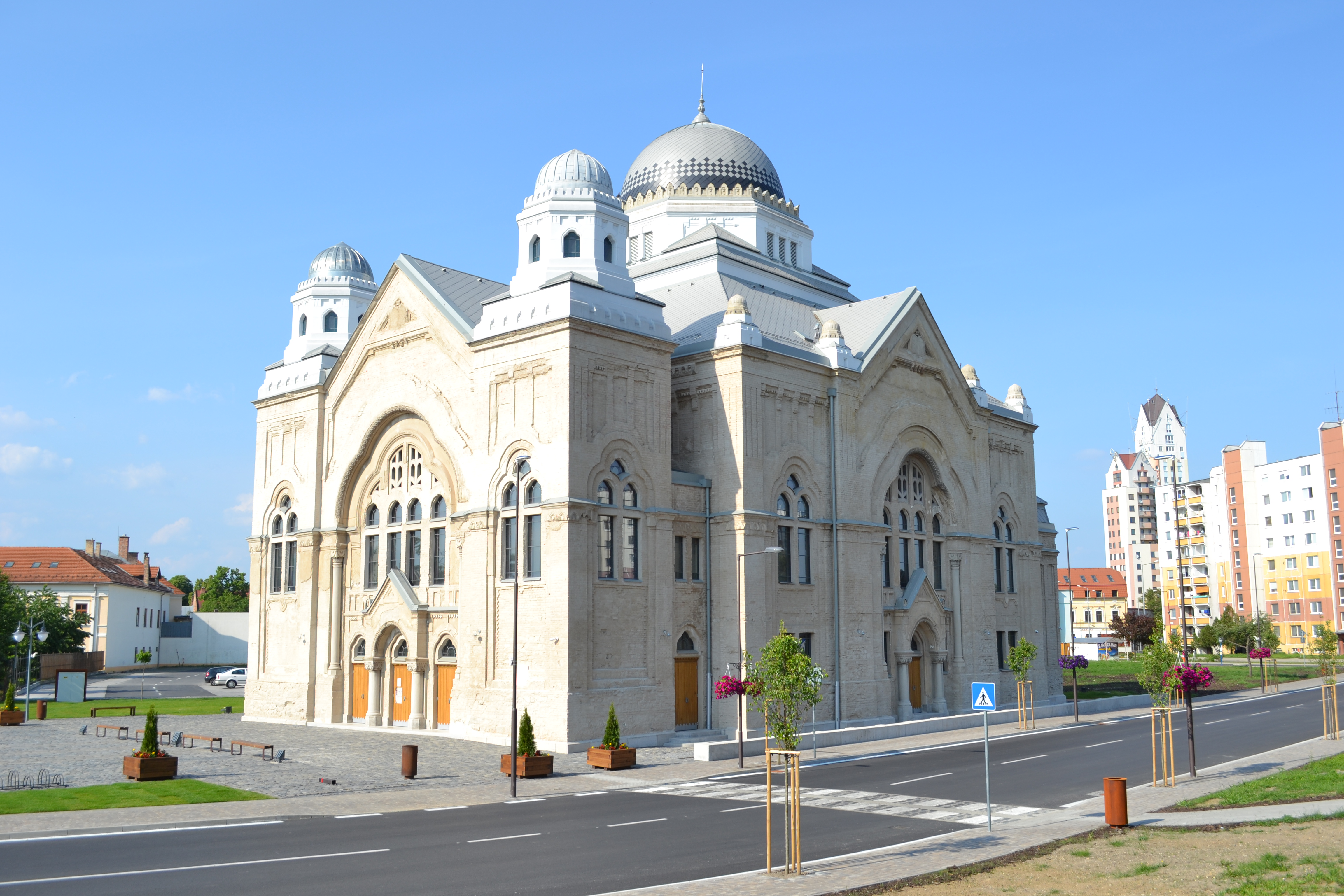 Synagogue has been built between 1923-1925 on the site of an earlier Moorish-style building from 1863. It was designed by Hungarian architect Lipót Baumhorn. It was consecrated on 9 of August 1925. It is ranked among the largest synagogues in Europe.